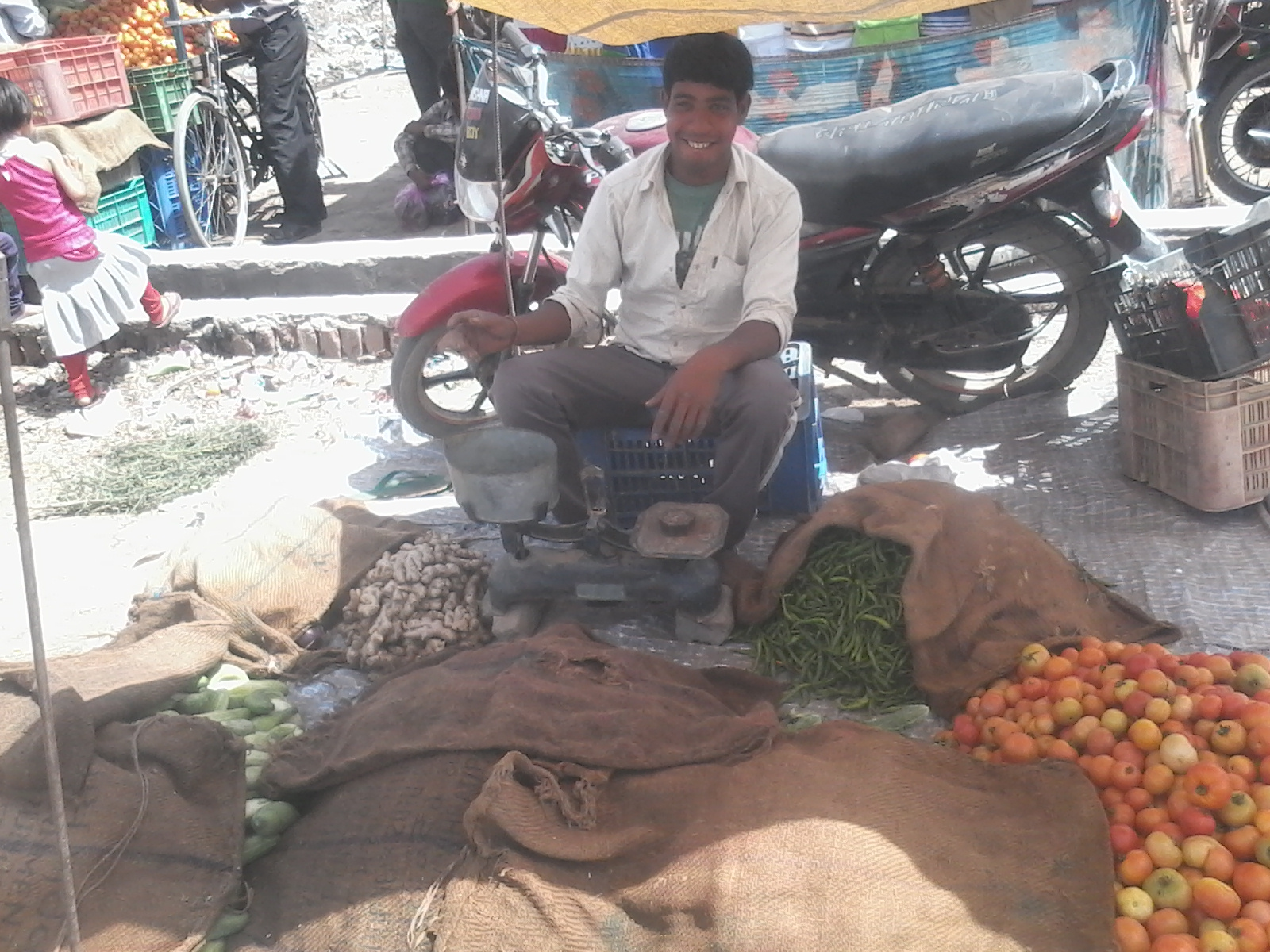 A vegetable vendors selling geen vegetables in Paith Bazar in Surir. Mr. Lekhraj Baghel, former vegetable vendors from Palwal Sabji Mandi.